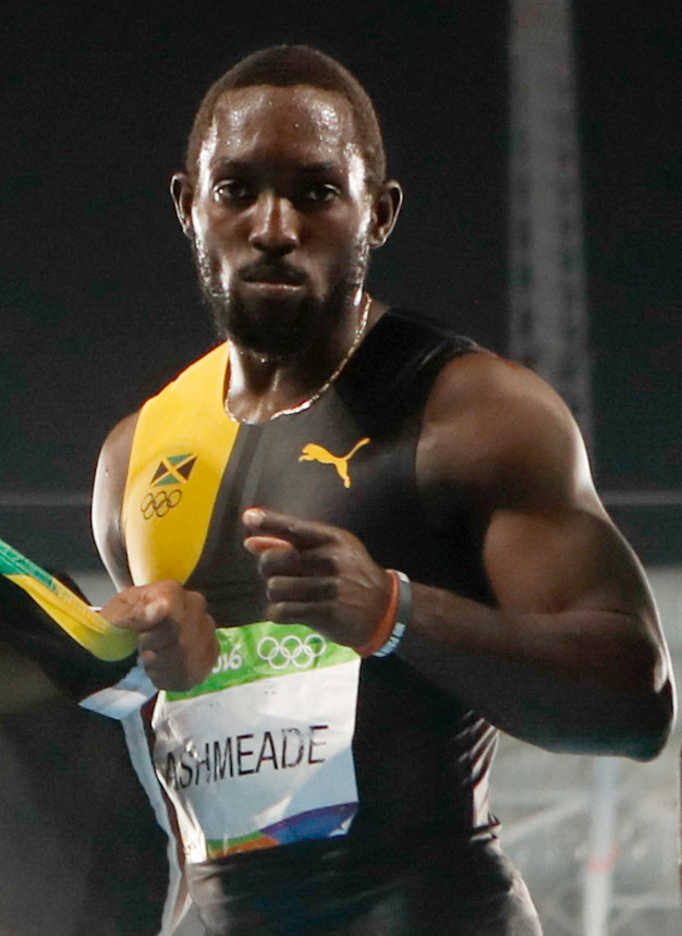 Rio de Janeiro - Usain Bolt ganha terceiro ouro nos Jogos Rio 2016 ao vencer o revezamento 4 x 100m com Asafa Powell, Yohan Blake e Nickel Ashmeade no Estádio Olímpico (Fernando Frazão/Agência Brasil)